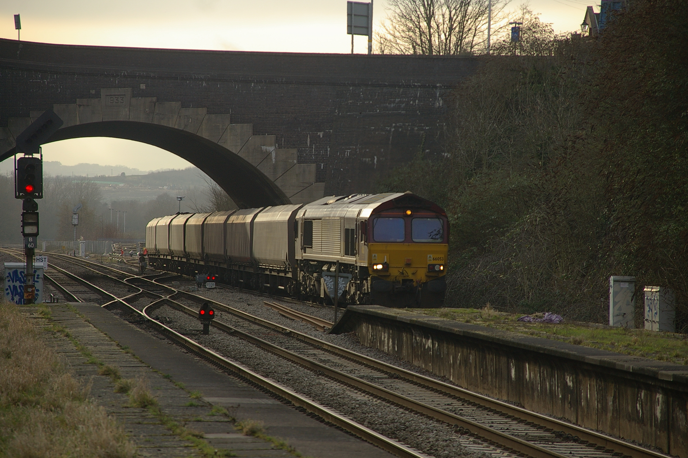 EWS 66053 heads off the Portishead Branchline with a train of coal from Portbury Docks.